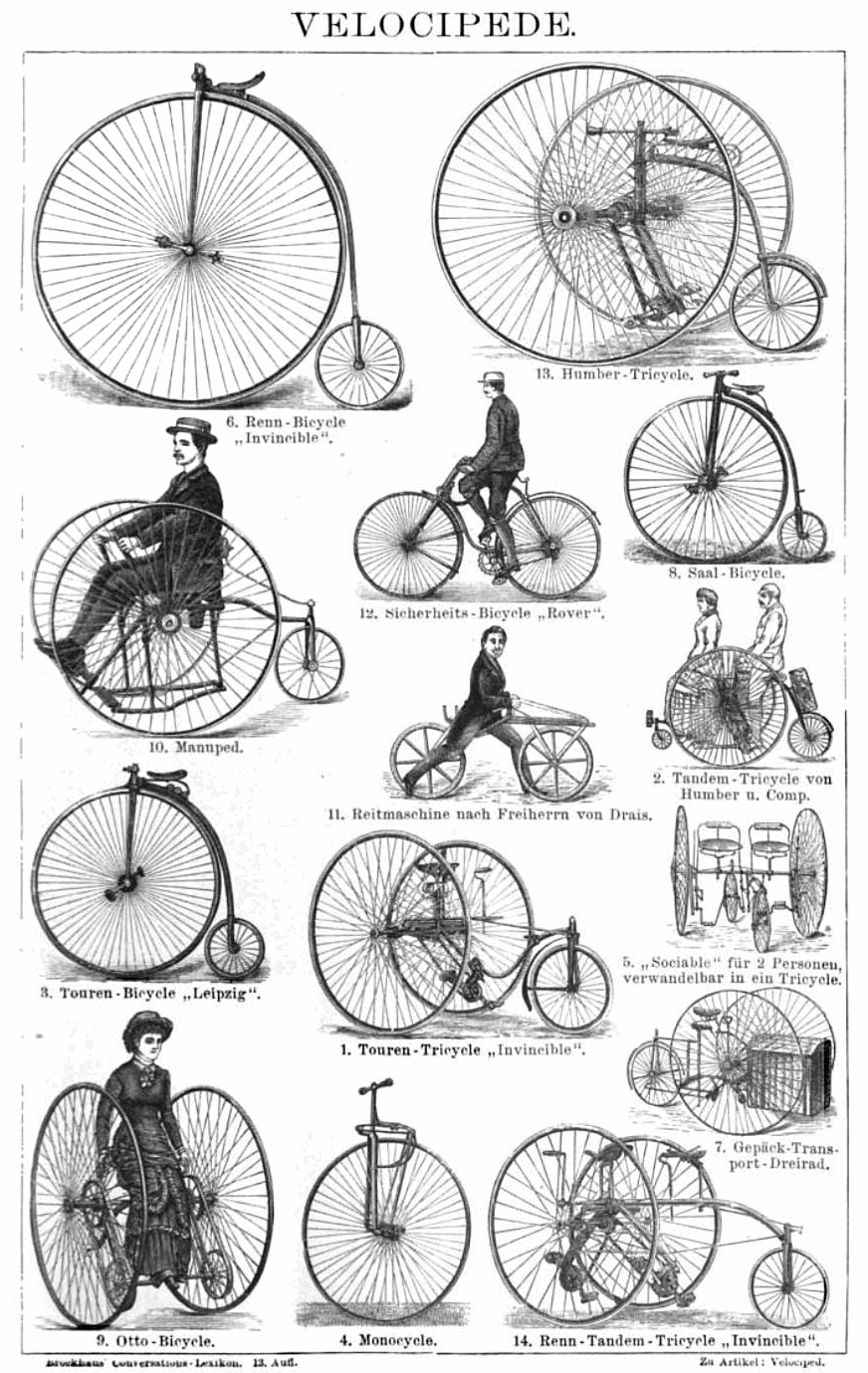 Drawing of various antique bicycles, or "velocipedes" as they were then called, from an 1887 German encyclopedia. Alterations to image: removed brown age discoloration from left side of image by subtracting smoothed copy of discoloration from image using GIMP, converted to 32 greyscale PNG format.